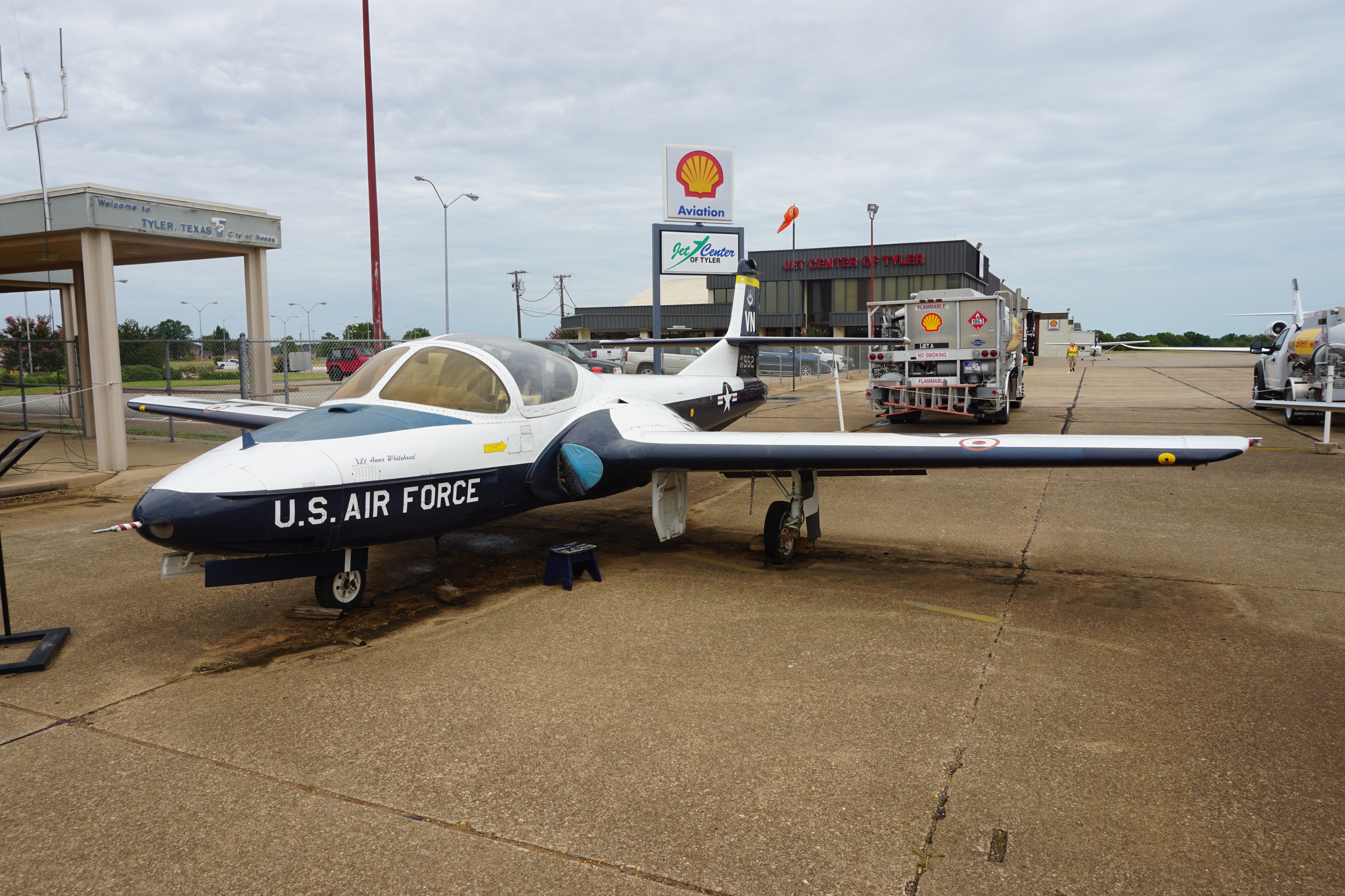 A Cessna T-37B Tweet on display at the Historic Aviation Memorial Museum at Tyler Pounds Regional Airport near Tyler, Texas (United States).